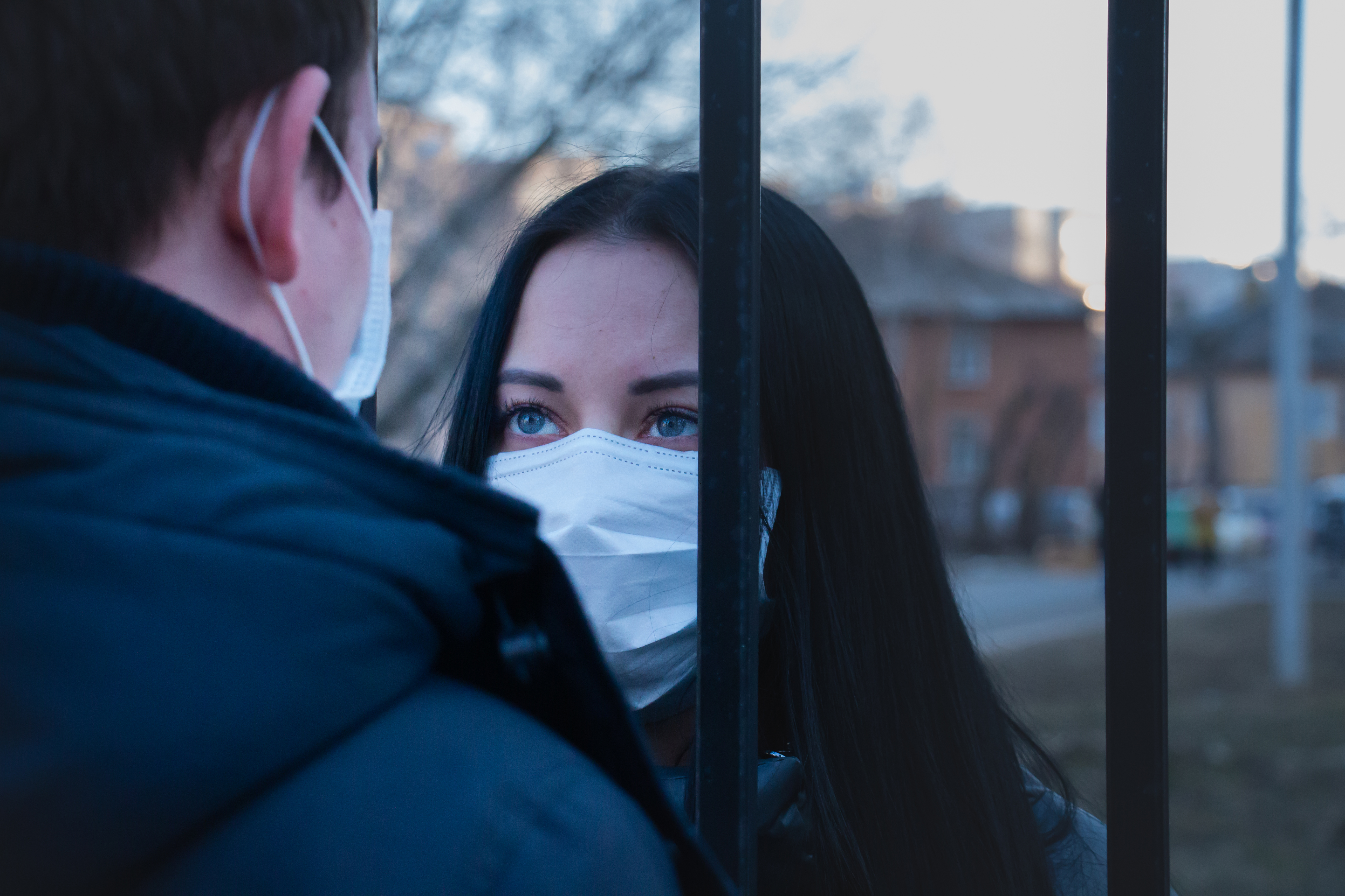 Man and woman on self-isolation quarantine during a coronavirus COVID 19-20 pandemic